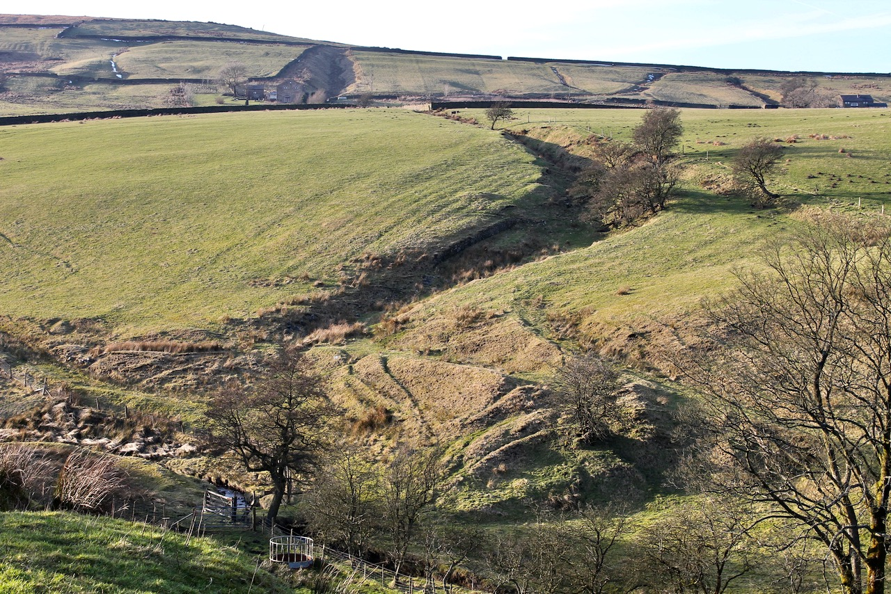 View of Alden Valley, Helmshore, Rossendale showing the ditch which encircled the medieval hunting park.